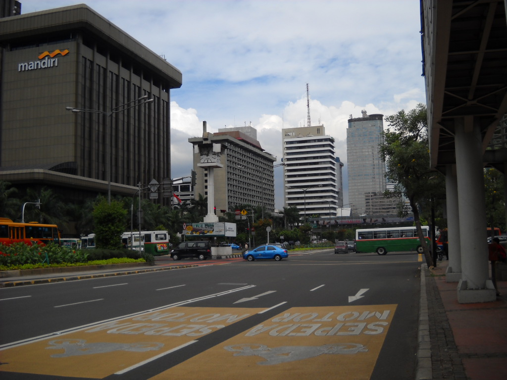 Jalan Thamrin in Central Jakarta.